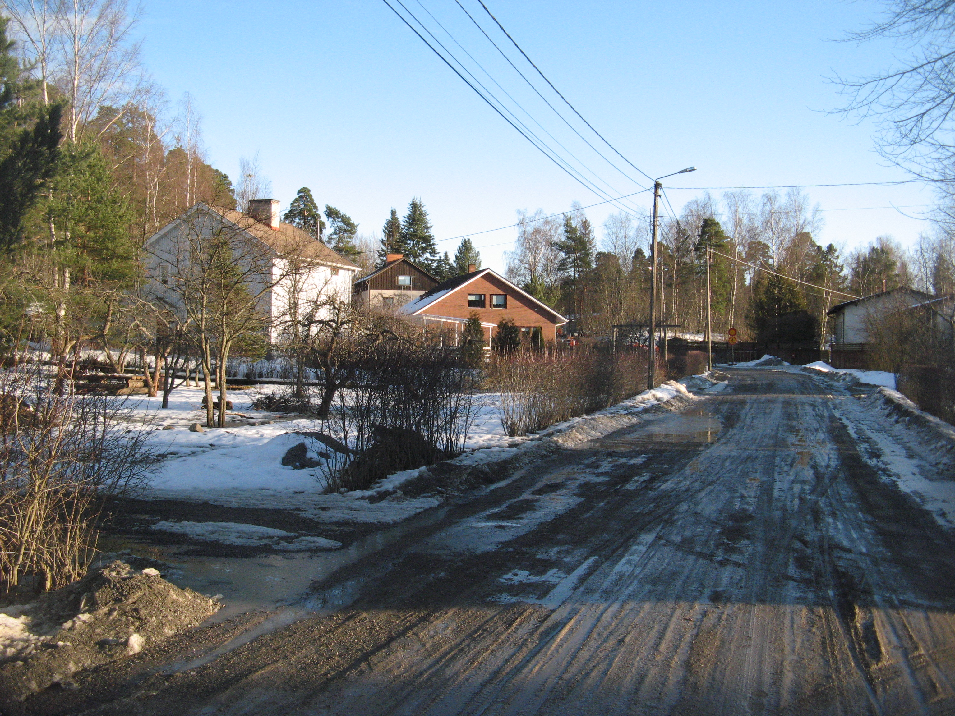 Road in Ispoinen, Turku, spring 2009